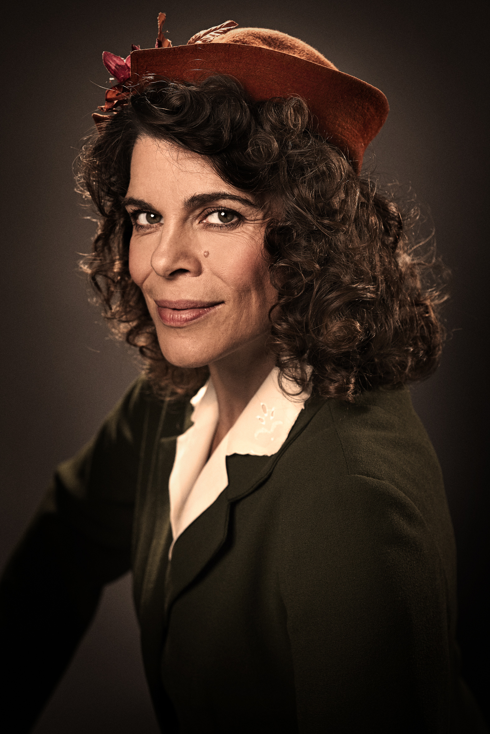 Ellen Hillingsø as Liva Weel in the Copenhagen theater Folketeatret's production of the play "Liva" by Vivian Nielsen.